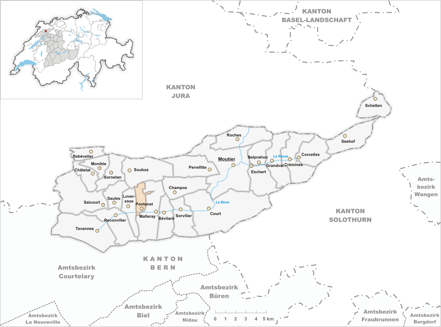 Municipality Pontenet